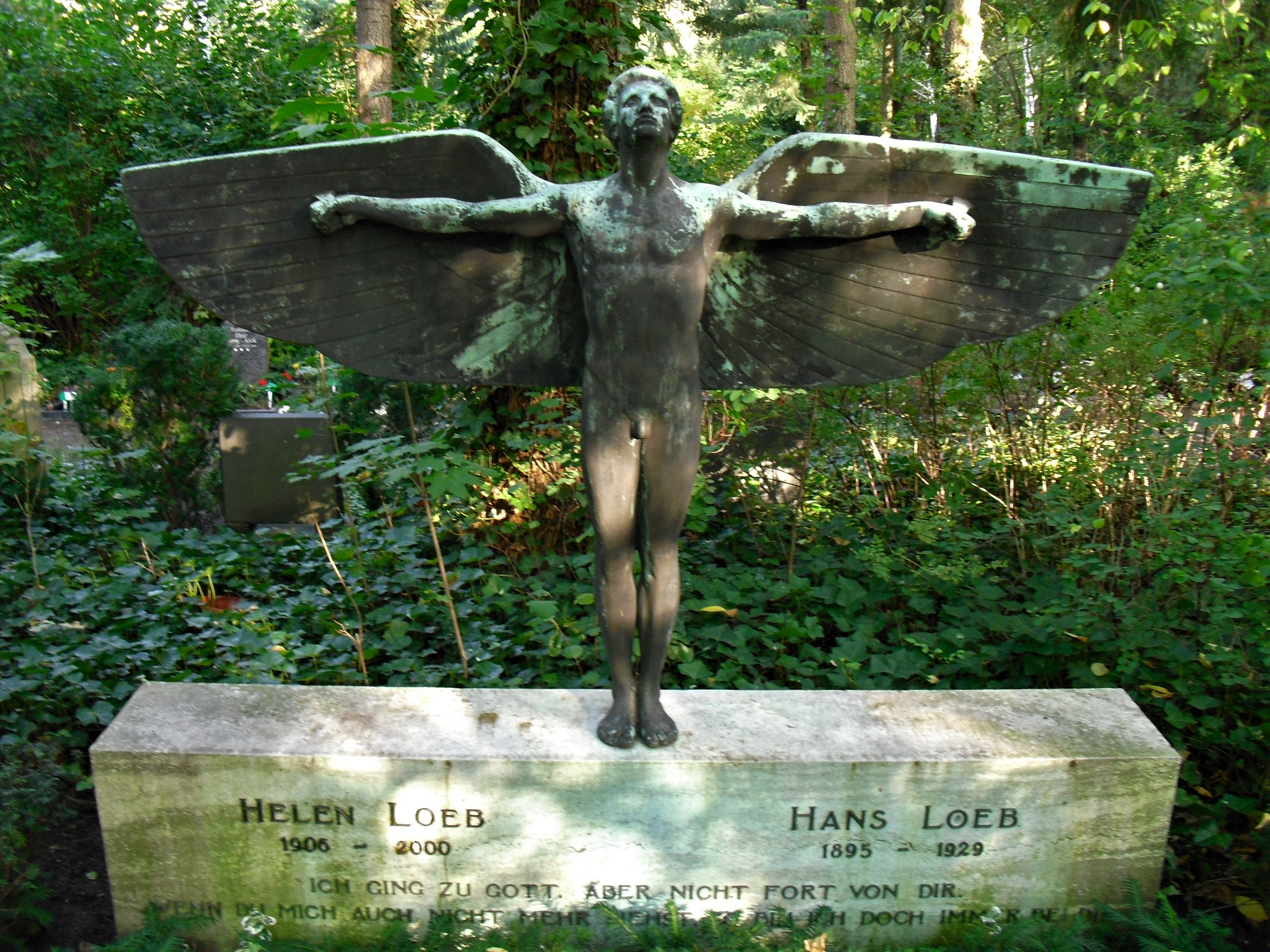 Grave of German aviator Hans Loeb 1895-1929) in Friedhof Steglitz, Berlin-Steglitz in September 2010.